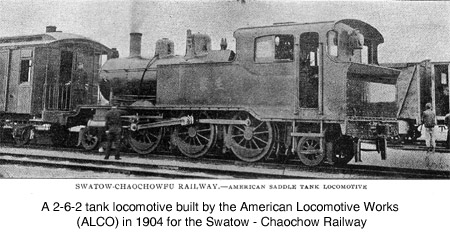 Photograph of ALCO 2-6-2 locmotive built for Swatow railway. China